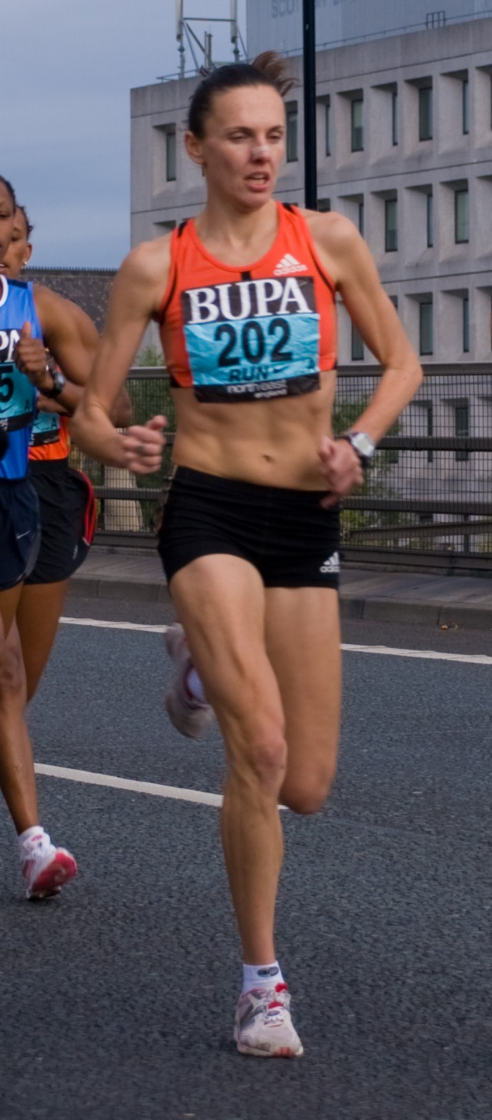 Great North Run 2007, crop of the head-group of the elite ladies to focus on Anikó Kálovics